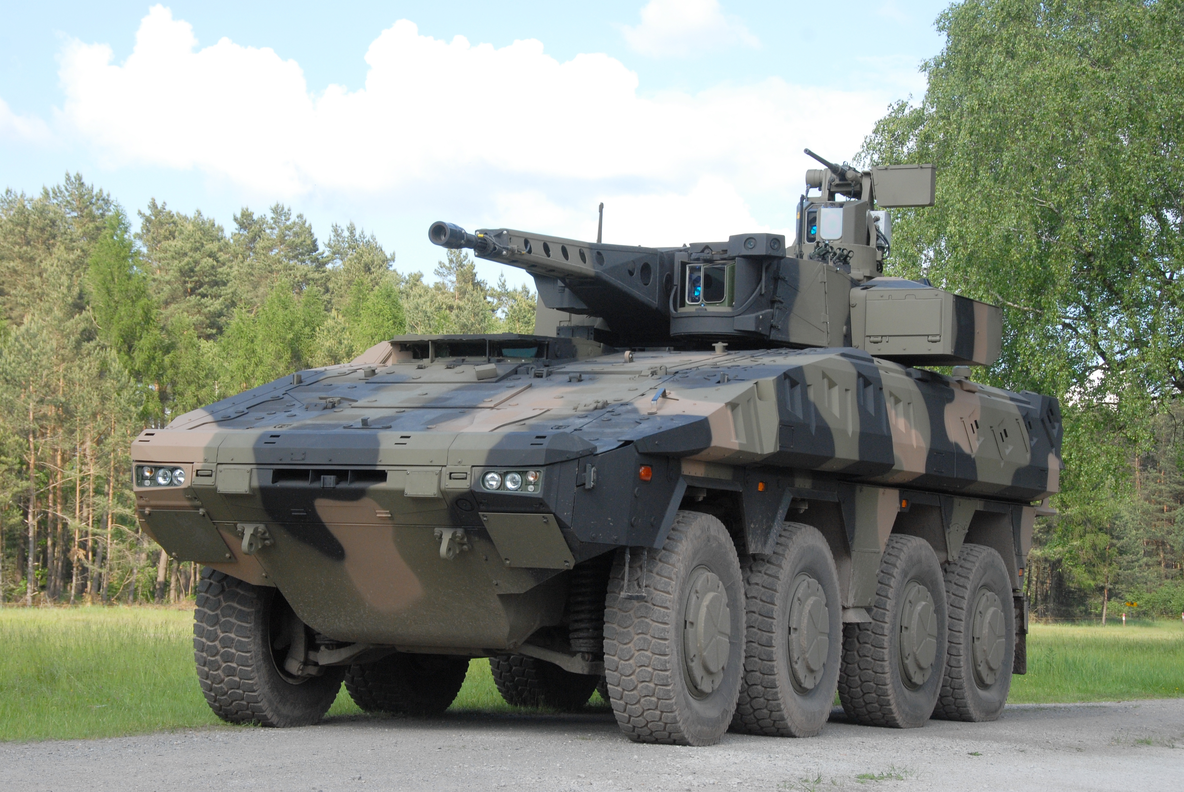 Boxer configured for Australian Land 400 Phase 2